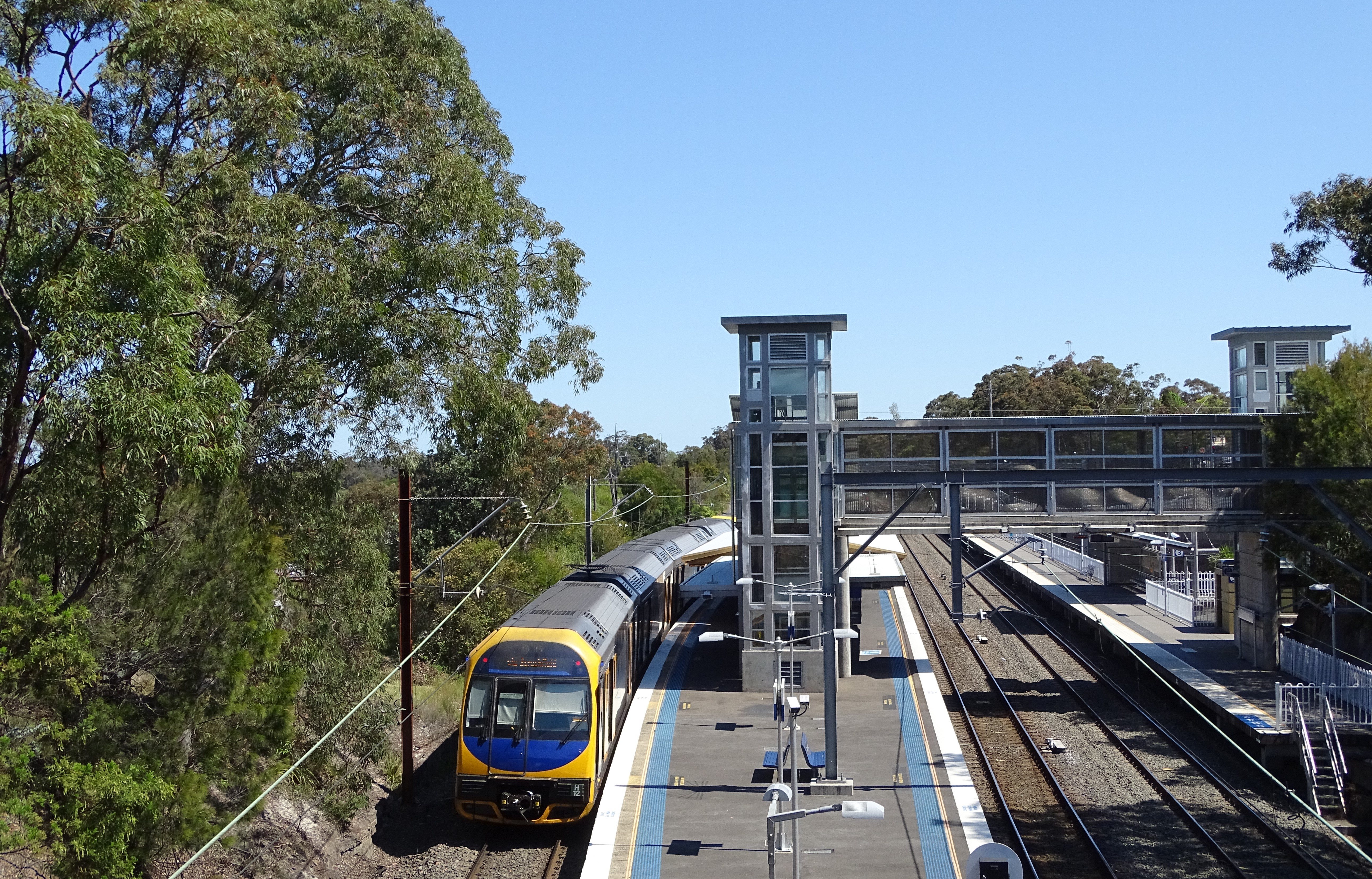 Central Coast & Newcastle Line Sydney bound service at Berowra station